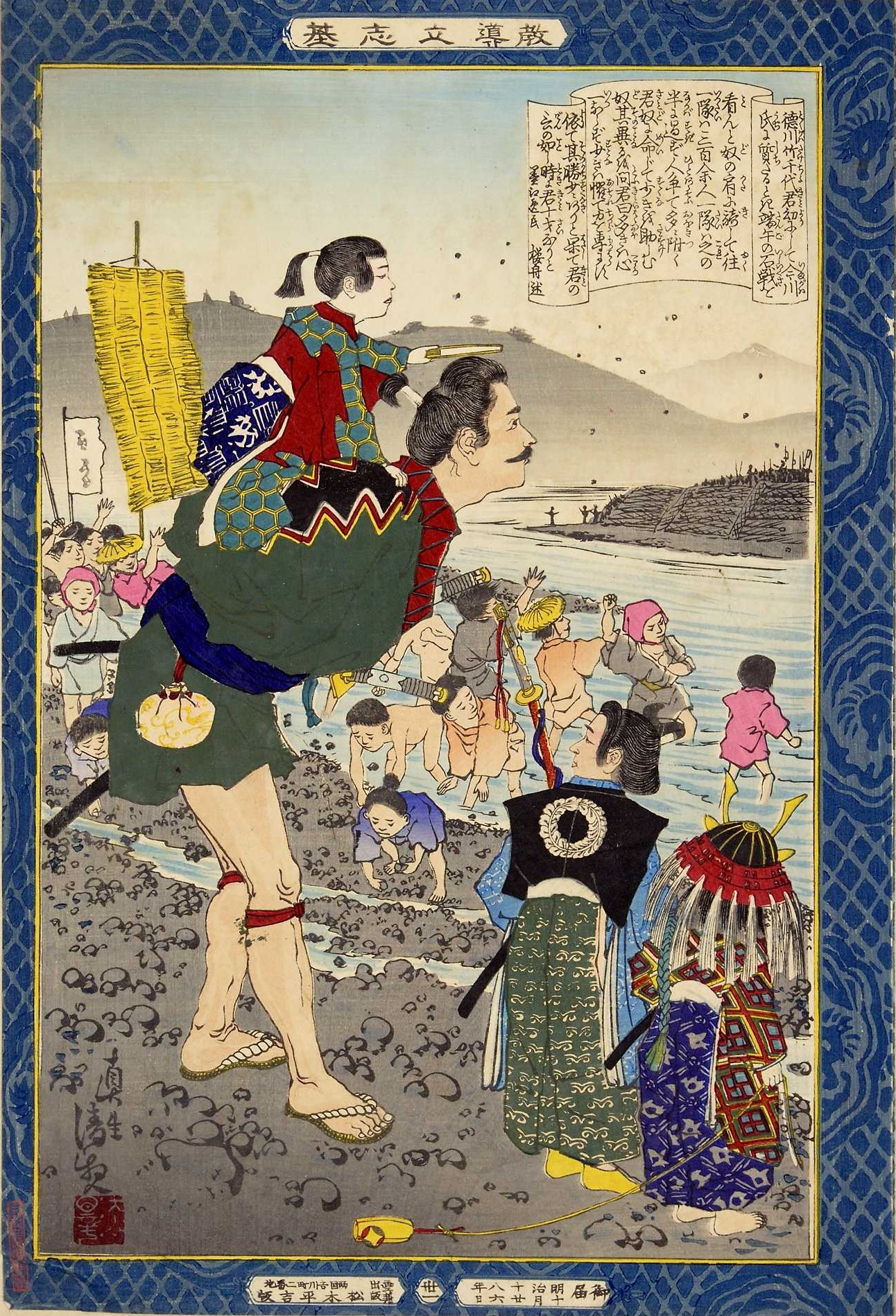 Tokugawa Takechiyo, from the series Instruction in the Fundamentals of Success, Woodblock print